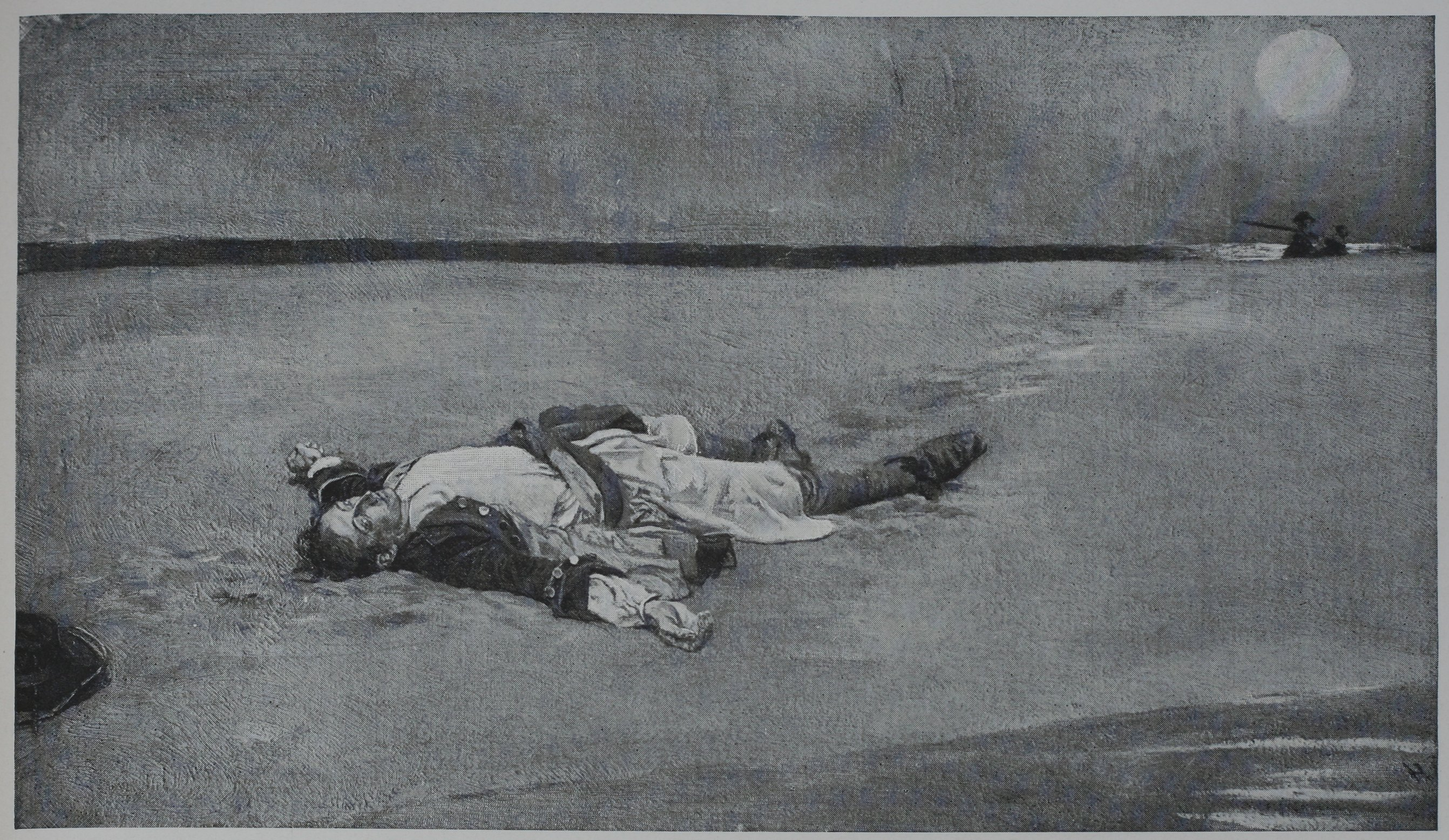 Pirates Used to Do That to Their Captains Now and Then: illustration of a dead pirate left on shore. This was originally published in Janvier, Thomas (November 1894). "Sea Robbers of New York". Harper's Magazine.